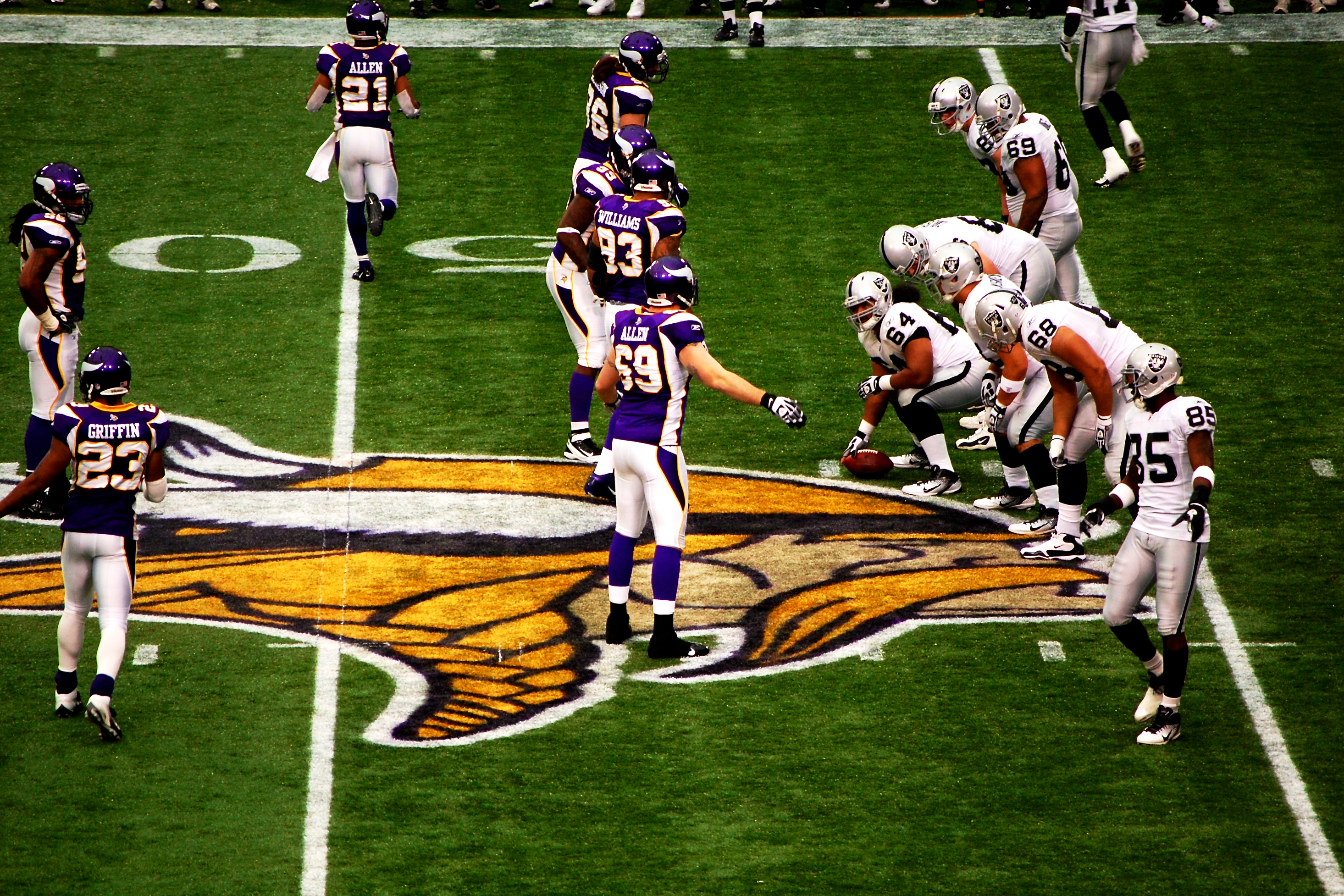 A 2011 Raiders at Vikings phase of the match.